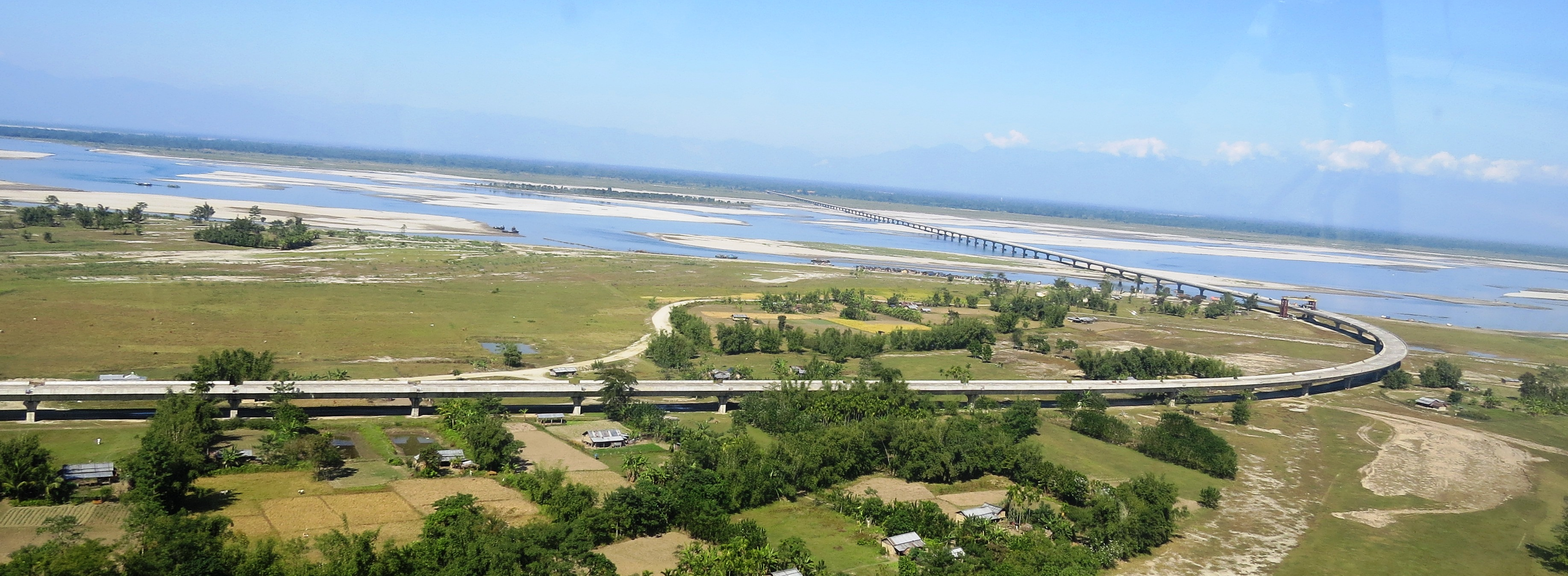 AERIAL VIEW